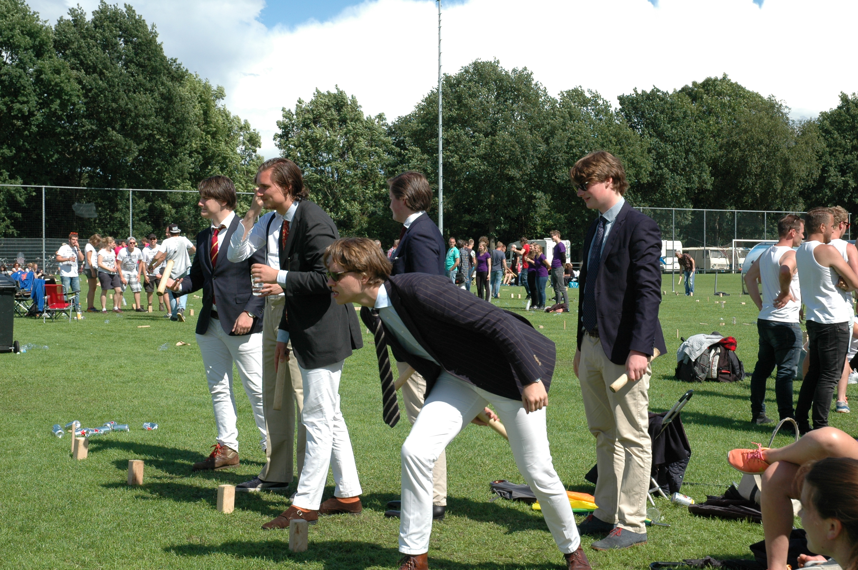 Dutch Kubb team NK Kubb